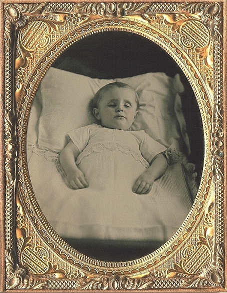 Little boy called William lying at state.